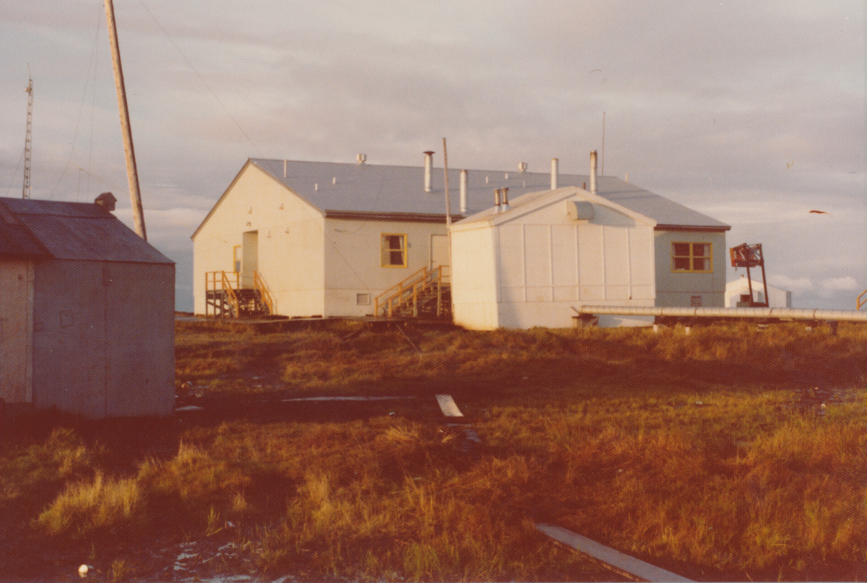 The BIA school building in Newtok, AK in August, 1974.